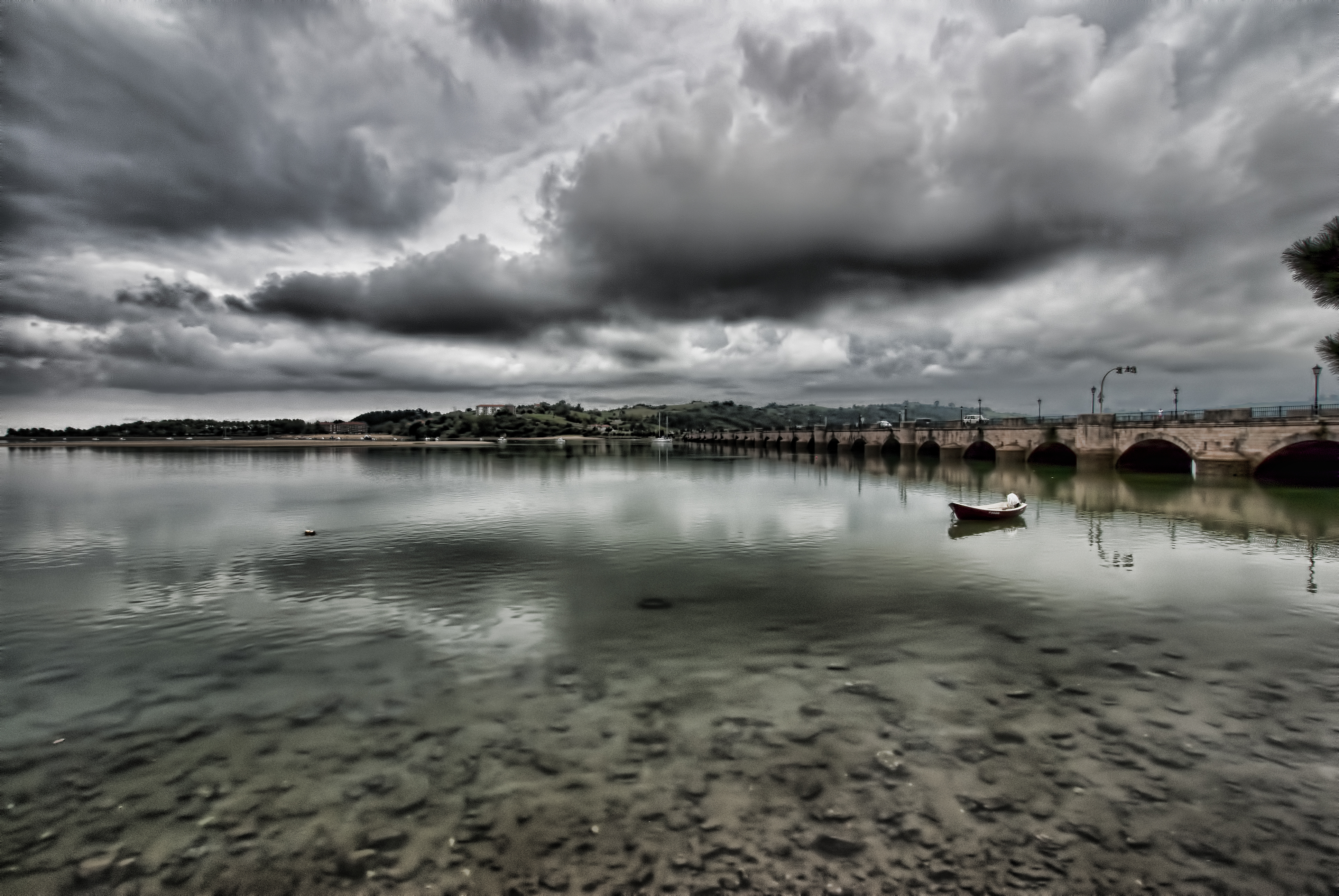 Puente de la Maza, puente de acceso a San Vicente de la Barquera, Cantabria (España)